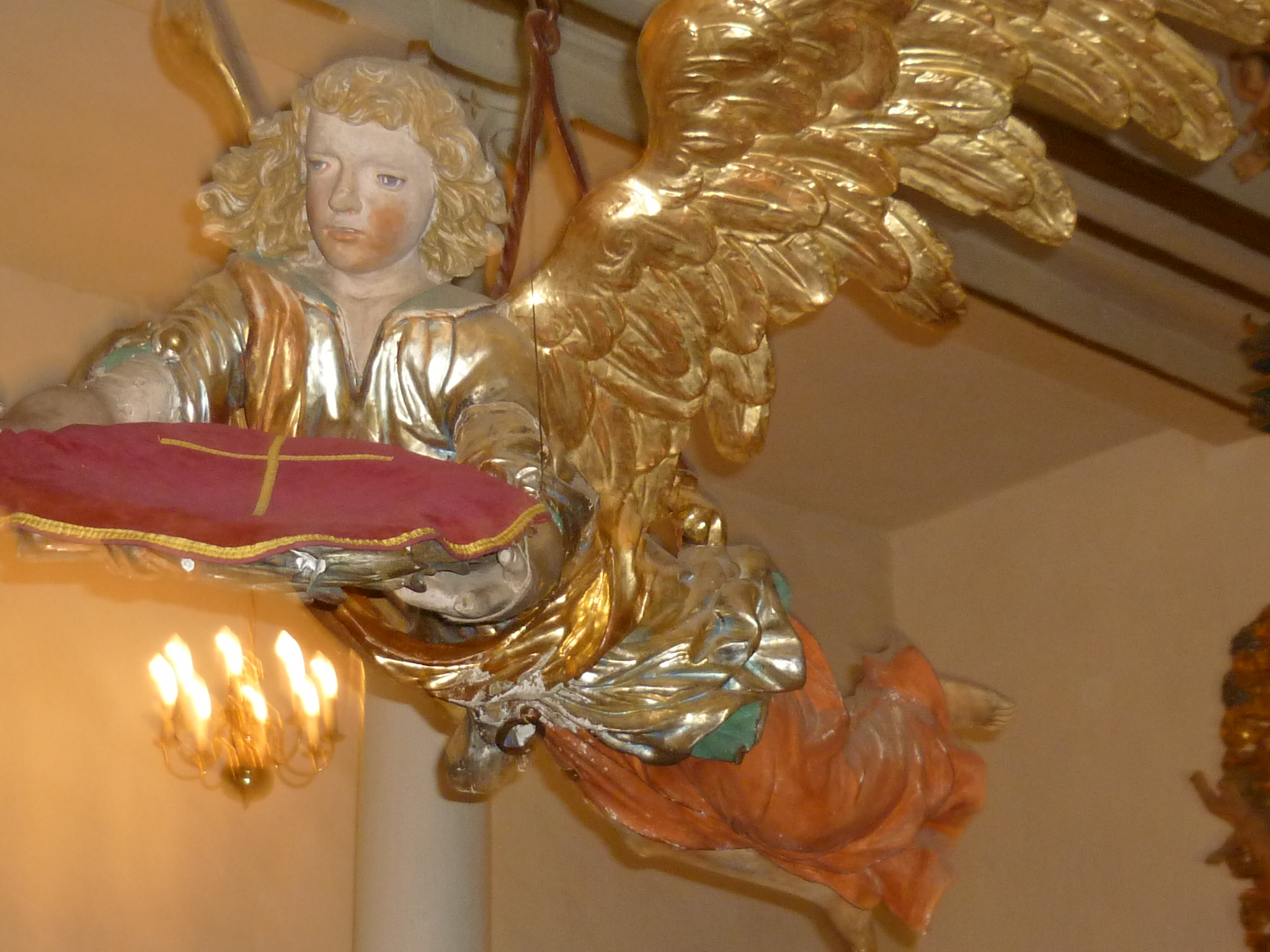 Baptizing angel at the Protestant church of Sorkwity, Poland (before 1945 Sorquitten in East Prussia)